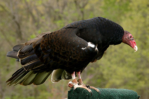 Turkey Vulture (Cathartes aura)